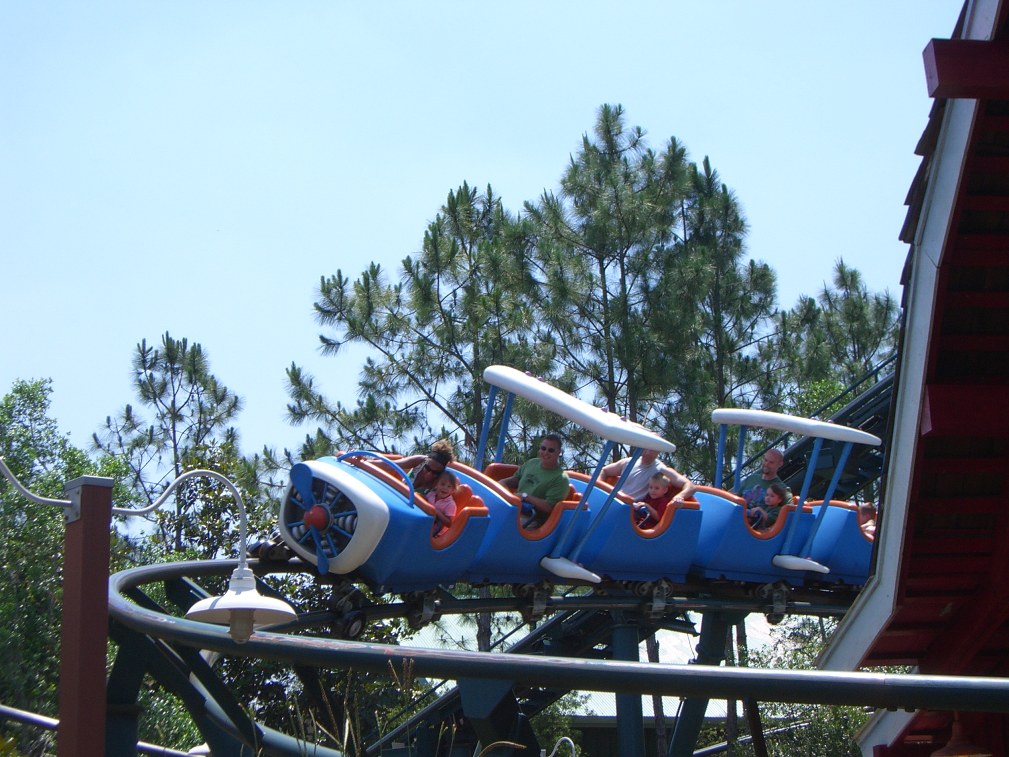 The Barnstormer roller coaster in Toon Town - Magic Kingdom